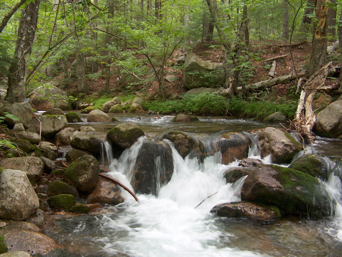 The Wonalancet River in the Sandwich Range of the White Mountains (New Hampshire). Photo by Ken Gallager.